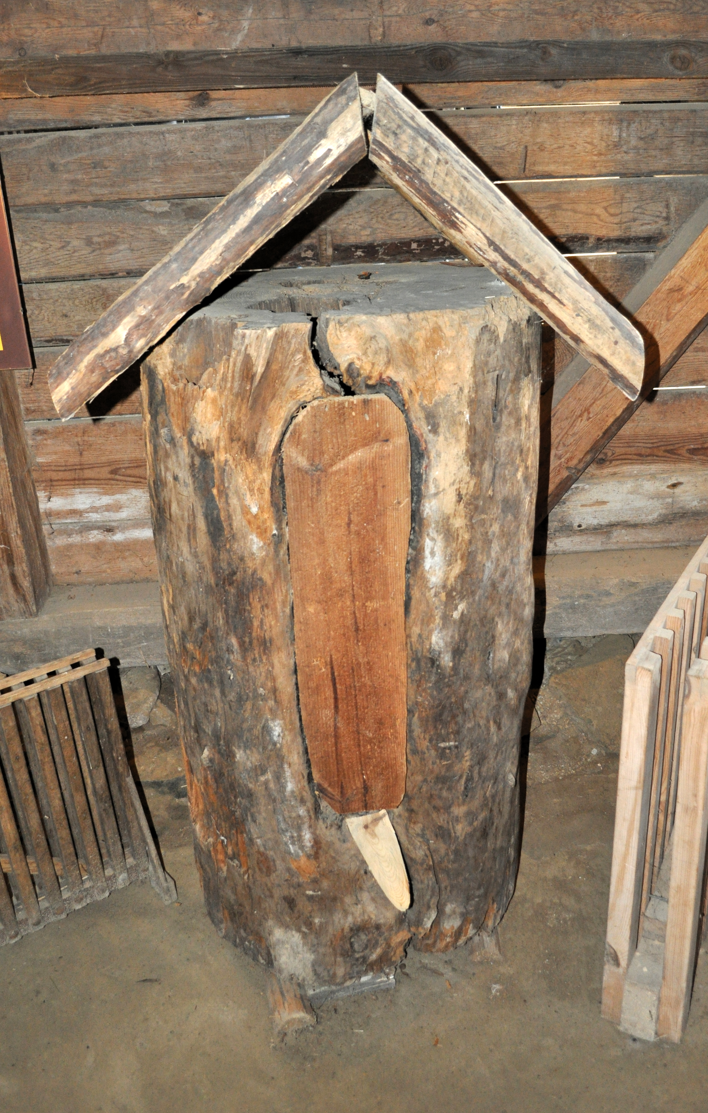 Museum in Nadole